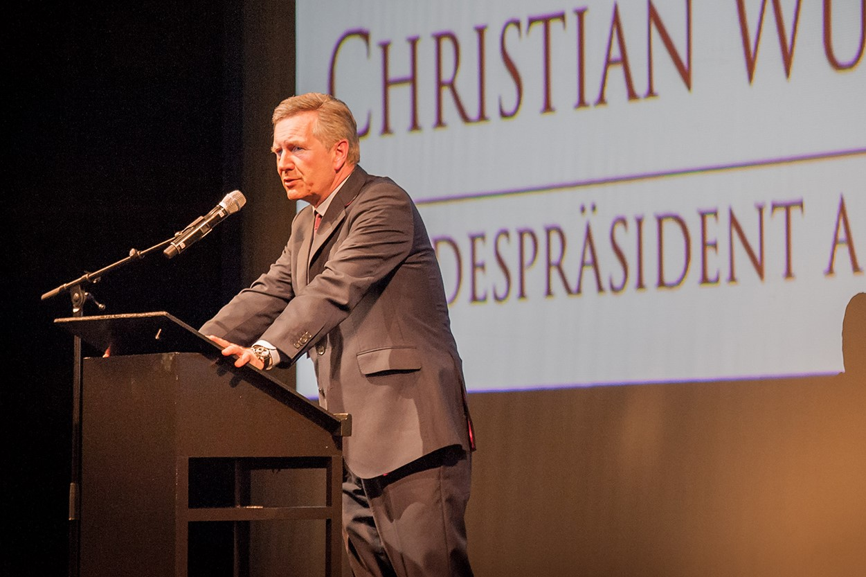 Chrisitan Wulff helds opening speech in 2018